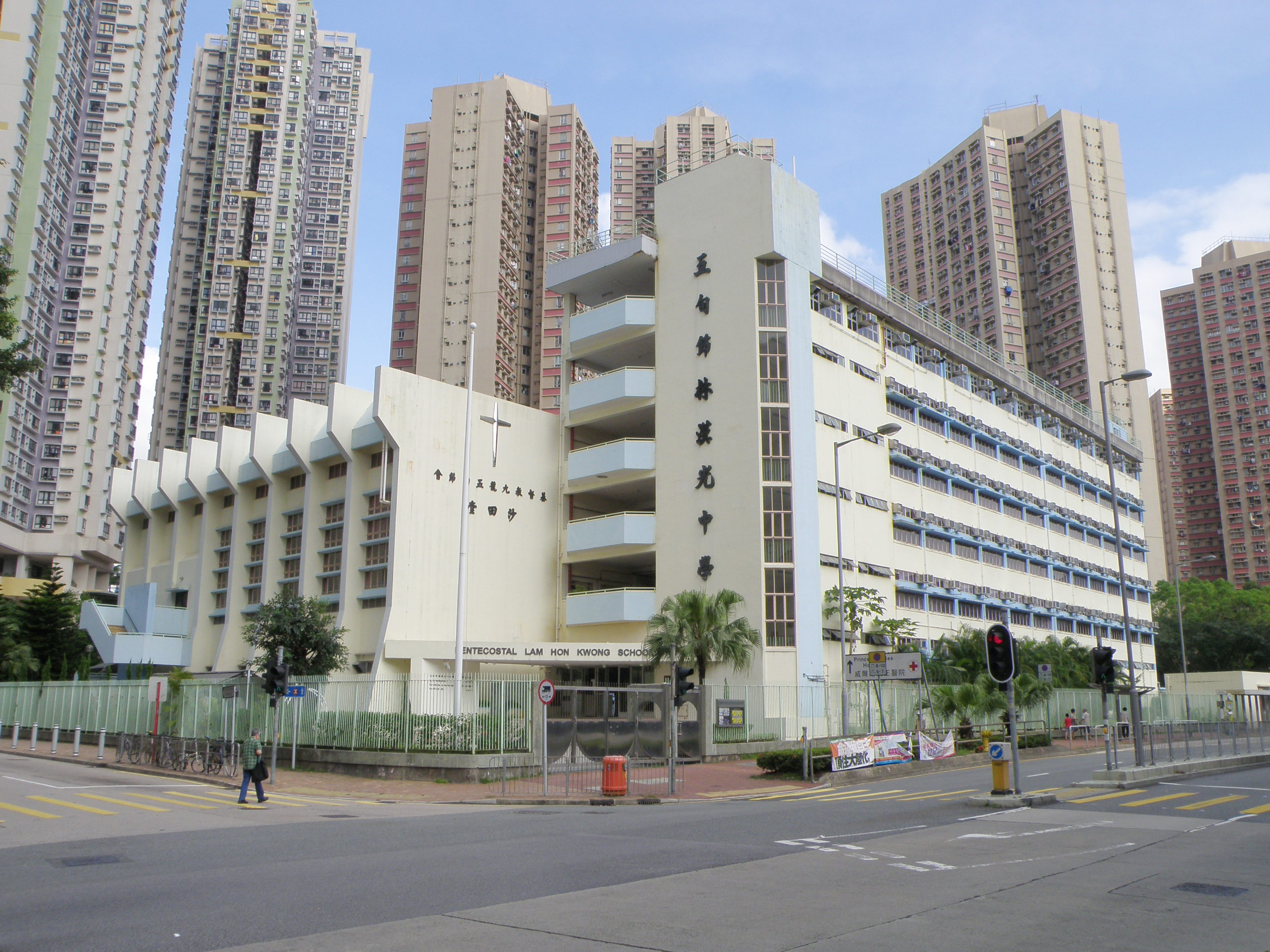 Pentecostal Lam Hon Kwong School in Yuen Chau Kok, Hong Kong.